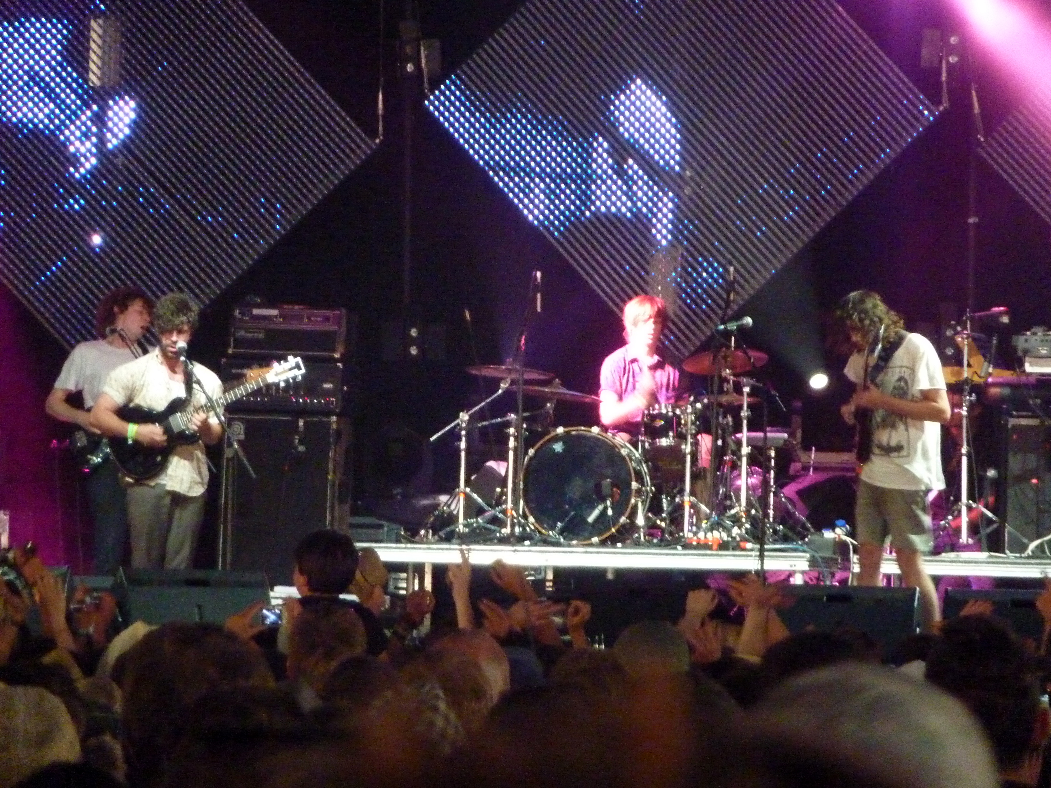 English indie rock band Foals performing in purple, color-changing lighting at the 2010 Glastonbury Festival.